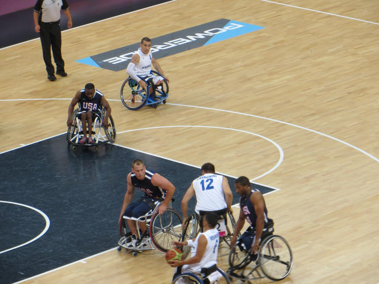 The United States competes against Italy during the group stage of Wheelchair Basketball at the 2012 Paralympics on August 31, 2012